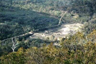 This photo shows geoglyph called Bunjil a mythical creature to the local Wathaurong Aborigines. It was constructed in 2006 by world-renowned Australian artist Andrew Rogers at the You Yangs National Park, Lara.